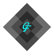 Strava - Gran Fondo challenge badge for March 2017